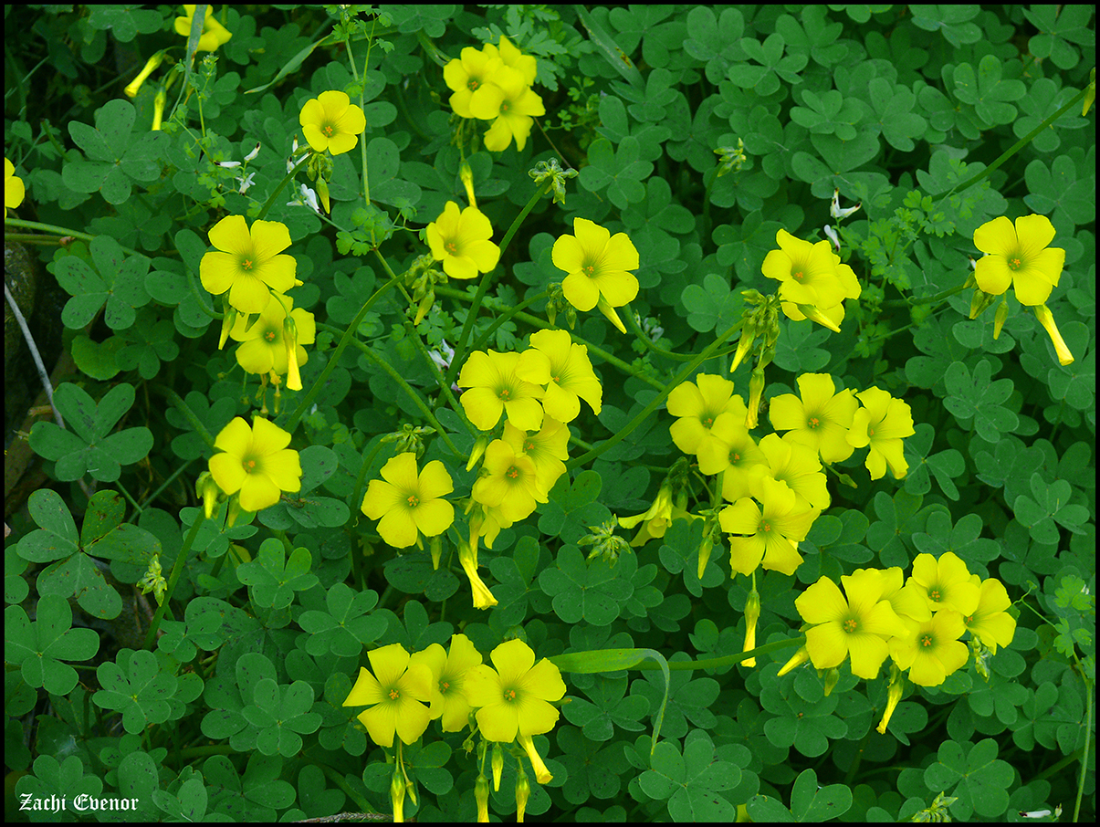 Oxalis pes-caprae and Fumaria, Ness Ziona Kurkar Hills, Israel